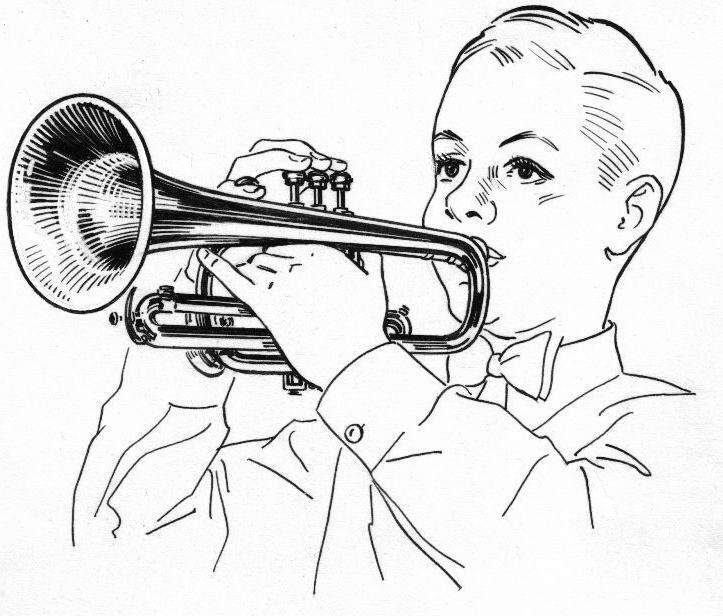 b/w line drawing of cornet